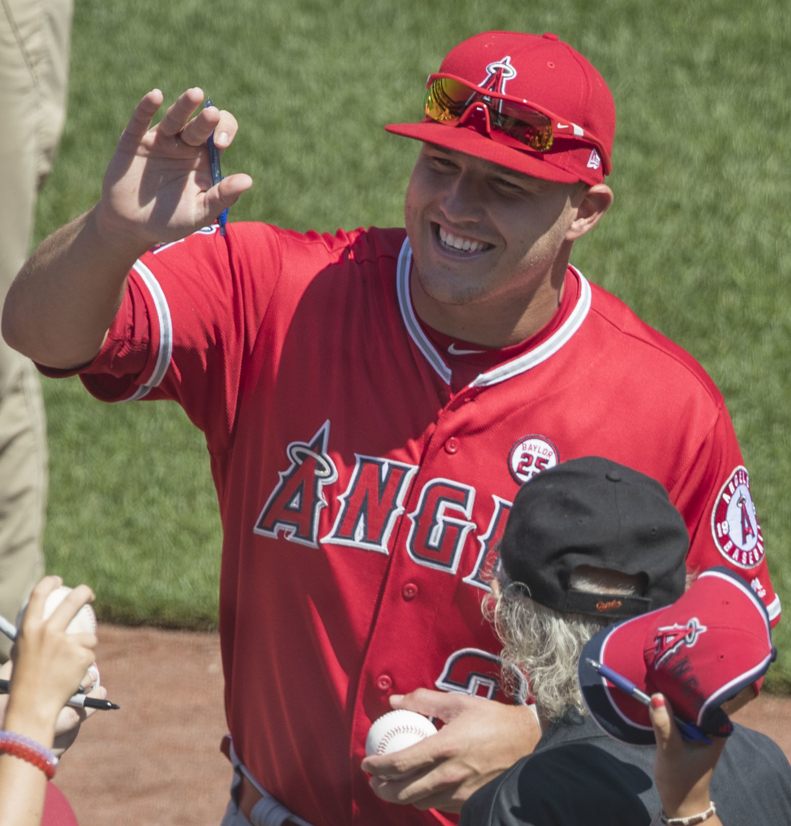 Angels at Orioles 8/20/17